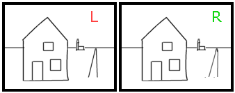 Stereo drawing.